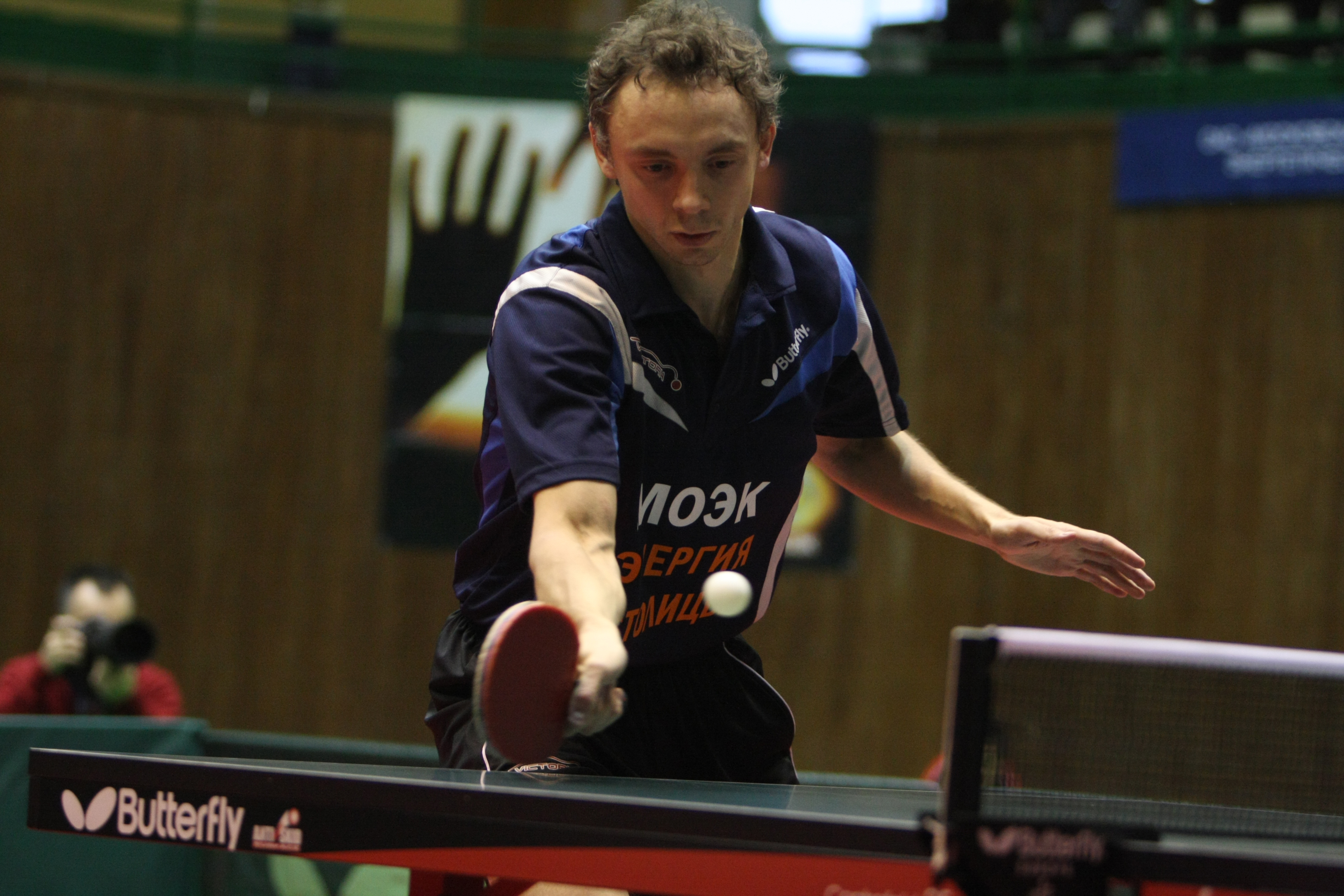 Maxim Shmyrev in 2009